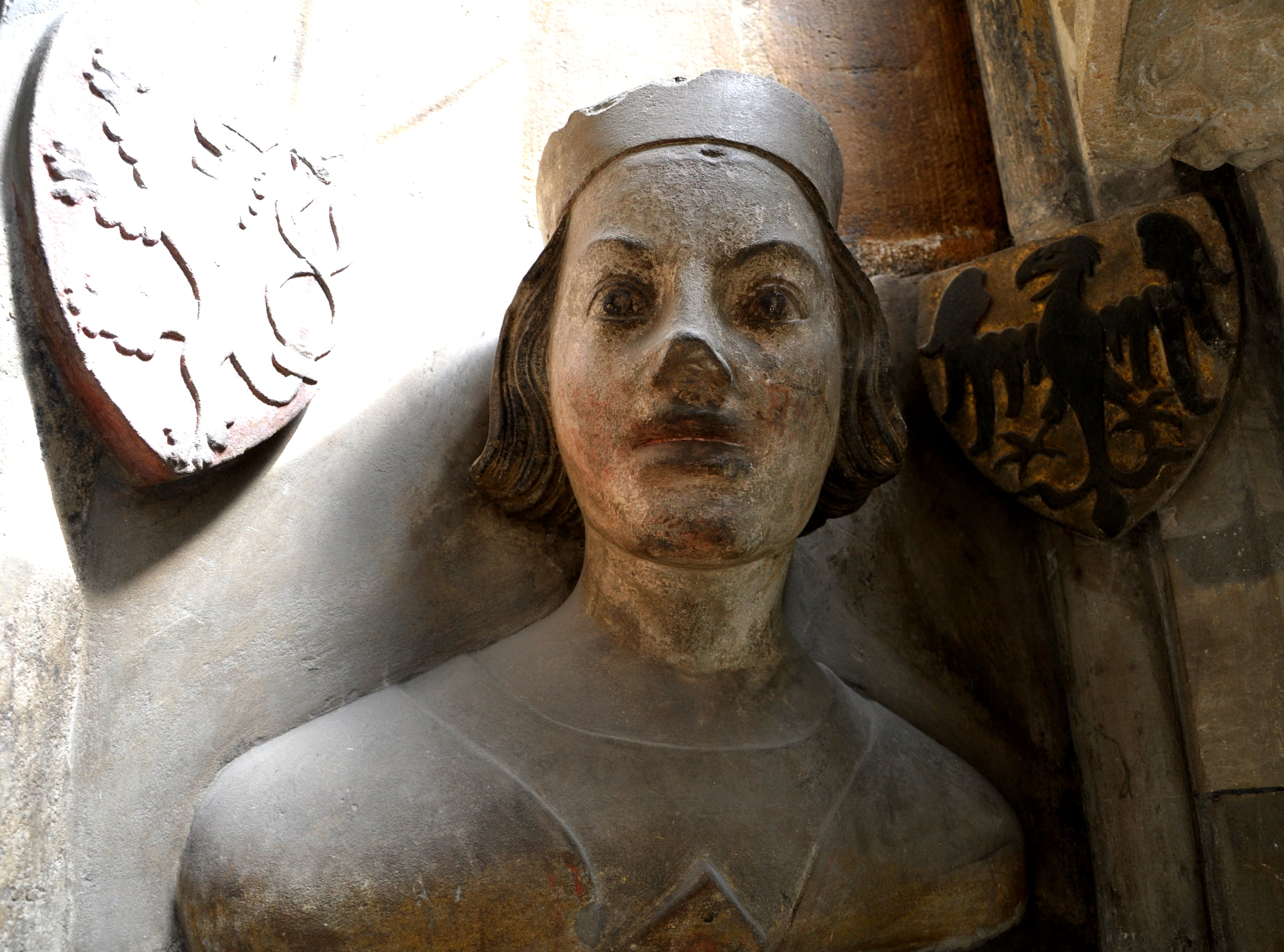 Bust of young Wenceslaus IV, King of Bohemia and King of the Romans from the 1370s in St. Vitus Cathedral.